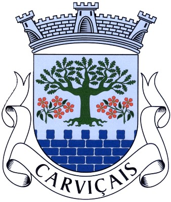 Carvicais village shield